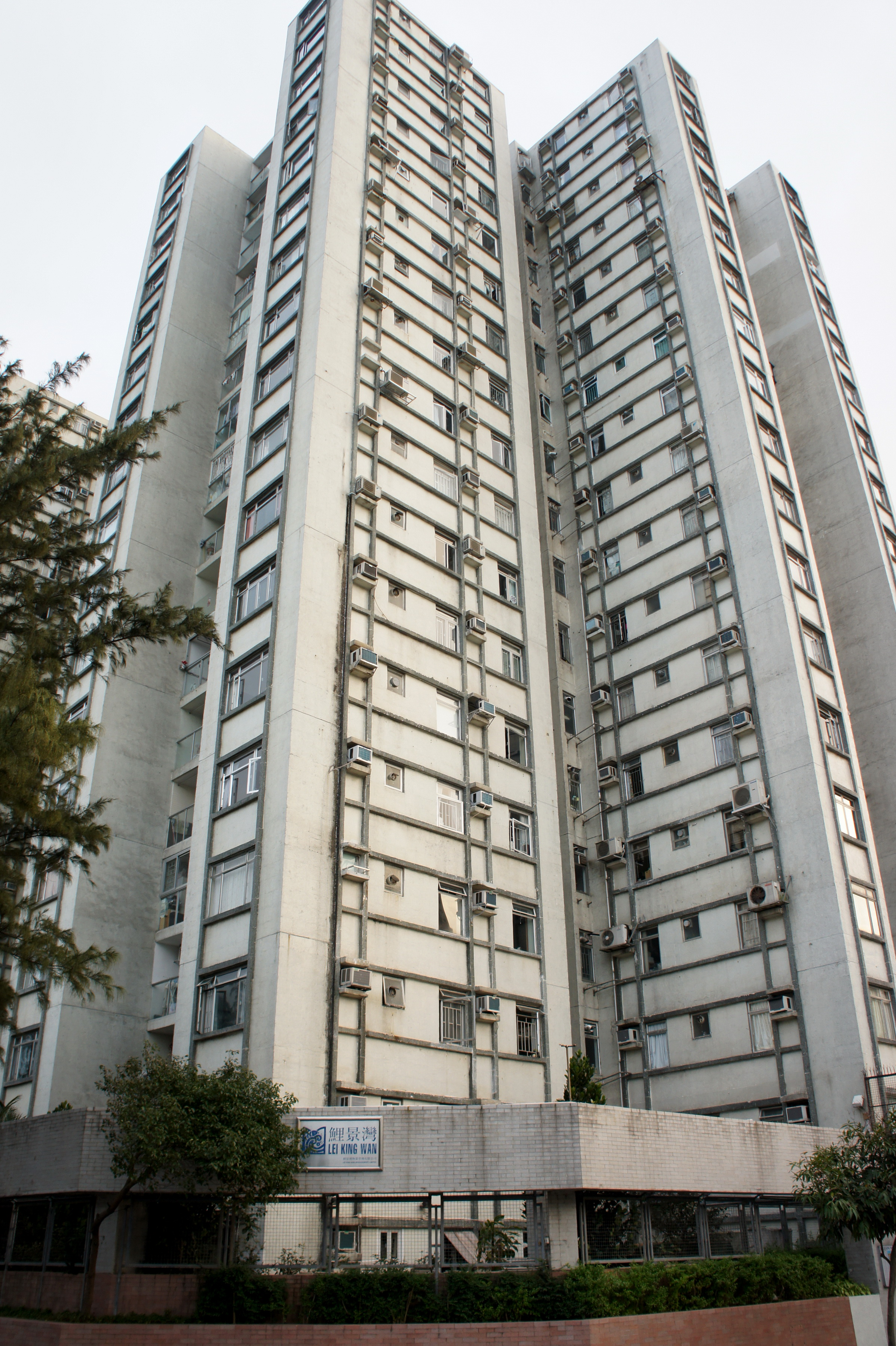 Lei King Wan, Hong Kong